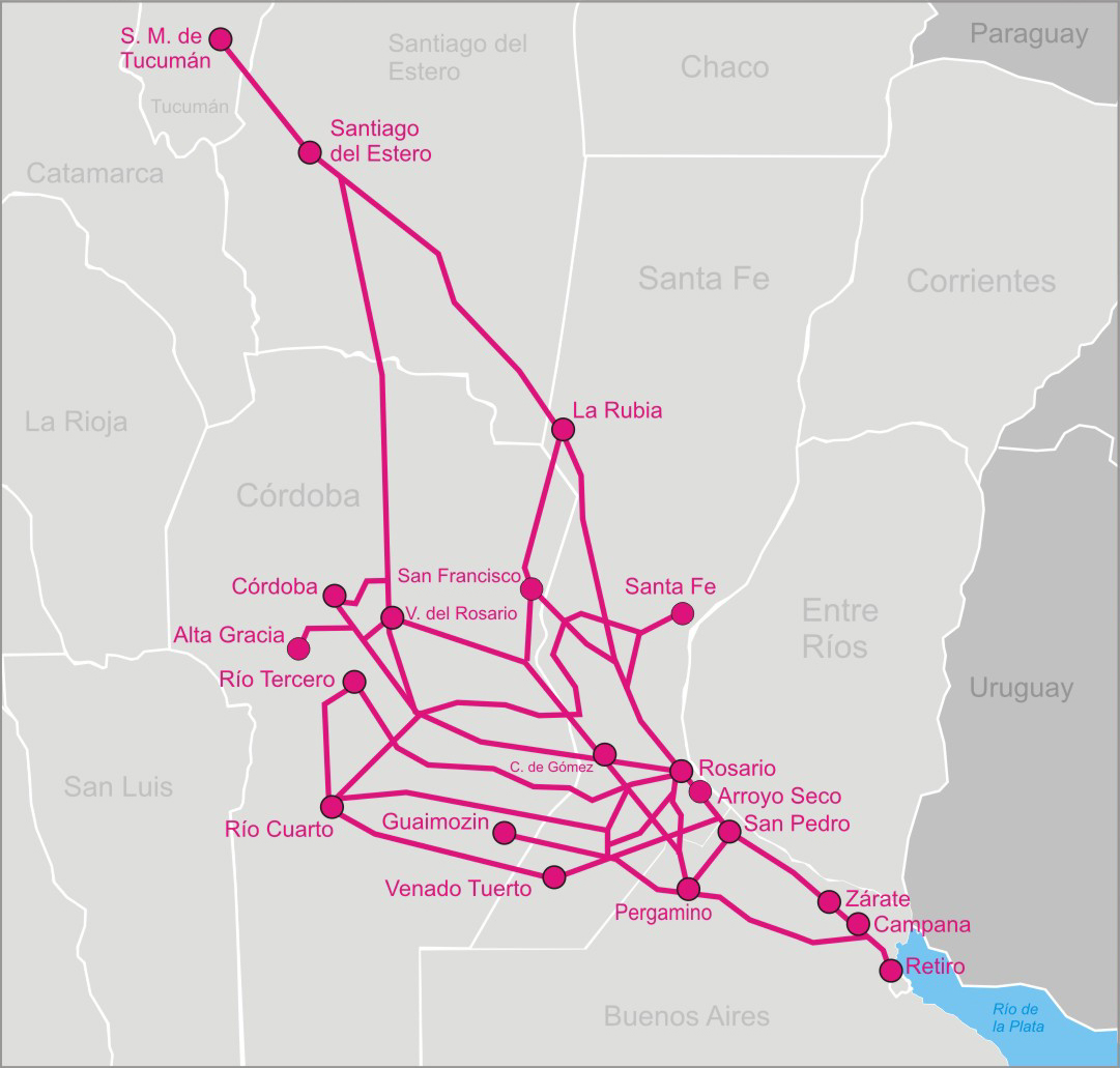 Map of Argentine Ferrocarril General B. Mitre complete network.